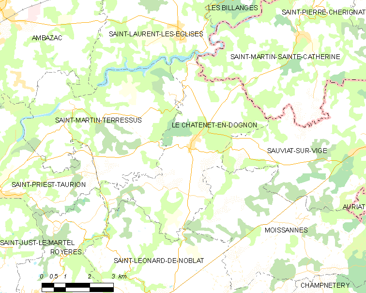 Map of French municipality Le Châtenet-en-Dognon